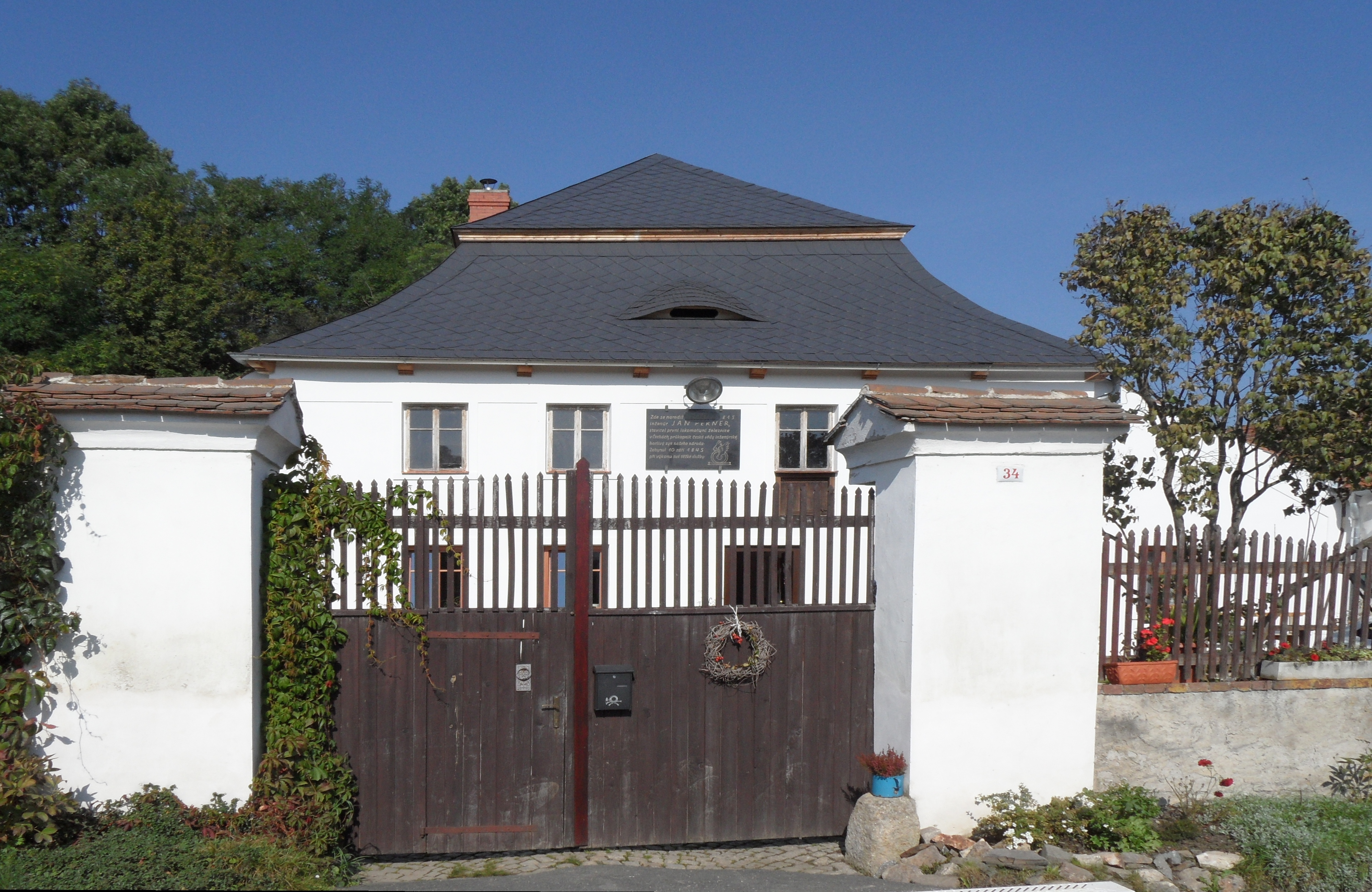 Bratčice (okres KH) A. Water Mill No 34. Frontal View, Kutná Hora District, the Czech Republic.